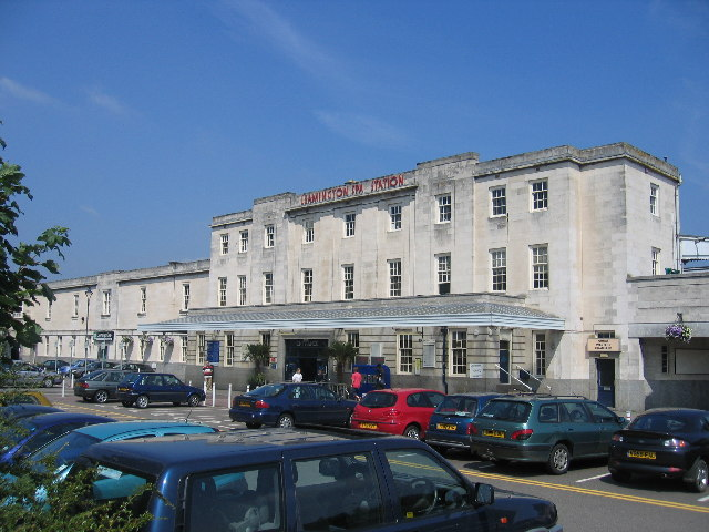 Leamington Spa Station. This is the former Leamington Spa (General) Station on the main GWR London - Birmingham Line. The station was rebuilt between 1936 and 1939 and was only just completed as WWII broke out. Today the station enjoys frequent services to Birmingham, Coventry, London Marylebone, and the South East.